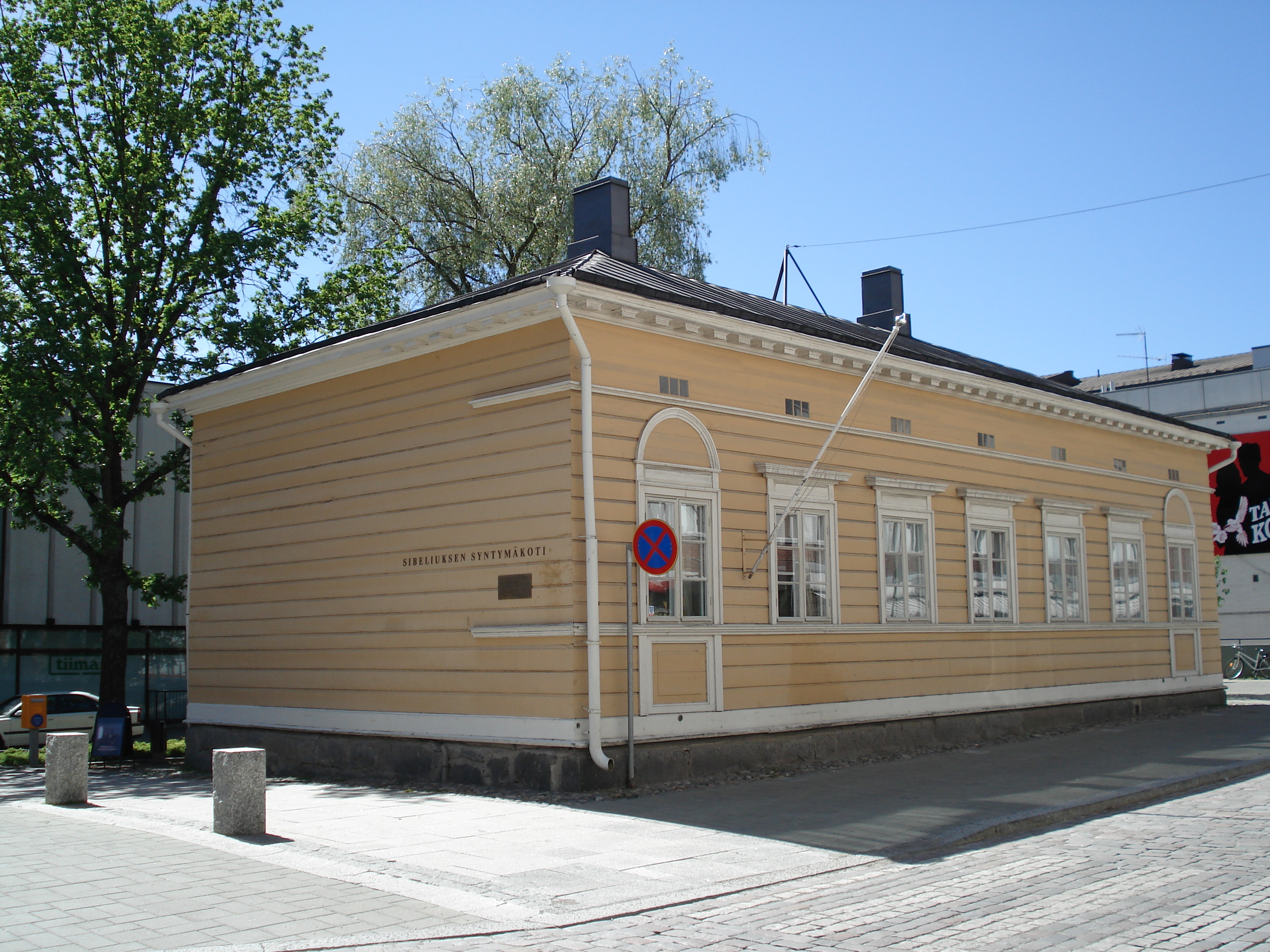 Preserved house (now museum) in Hämeenlinna, Finland in which Jean Sibelius was born.